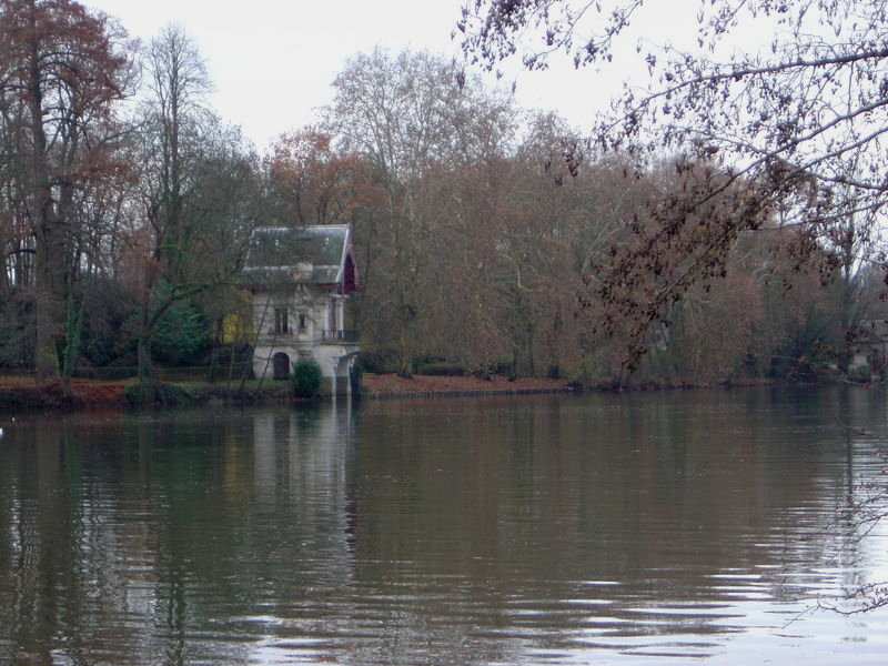 the Loiret River in France. Boat-house of the château de la Quétonnière, Olivet. Looking West.